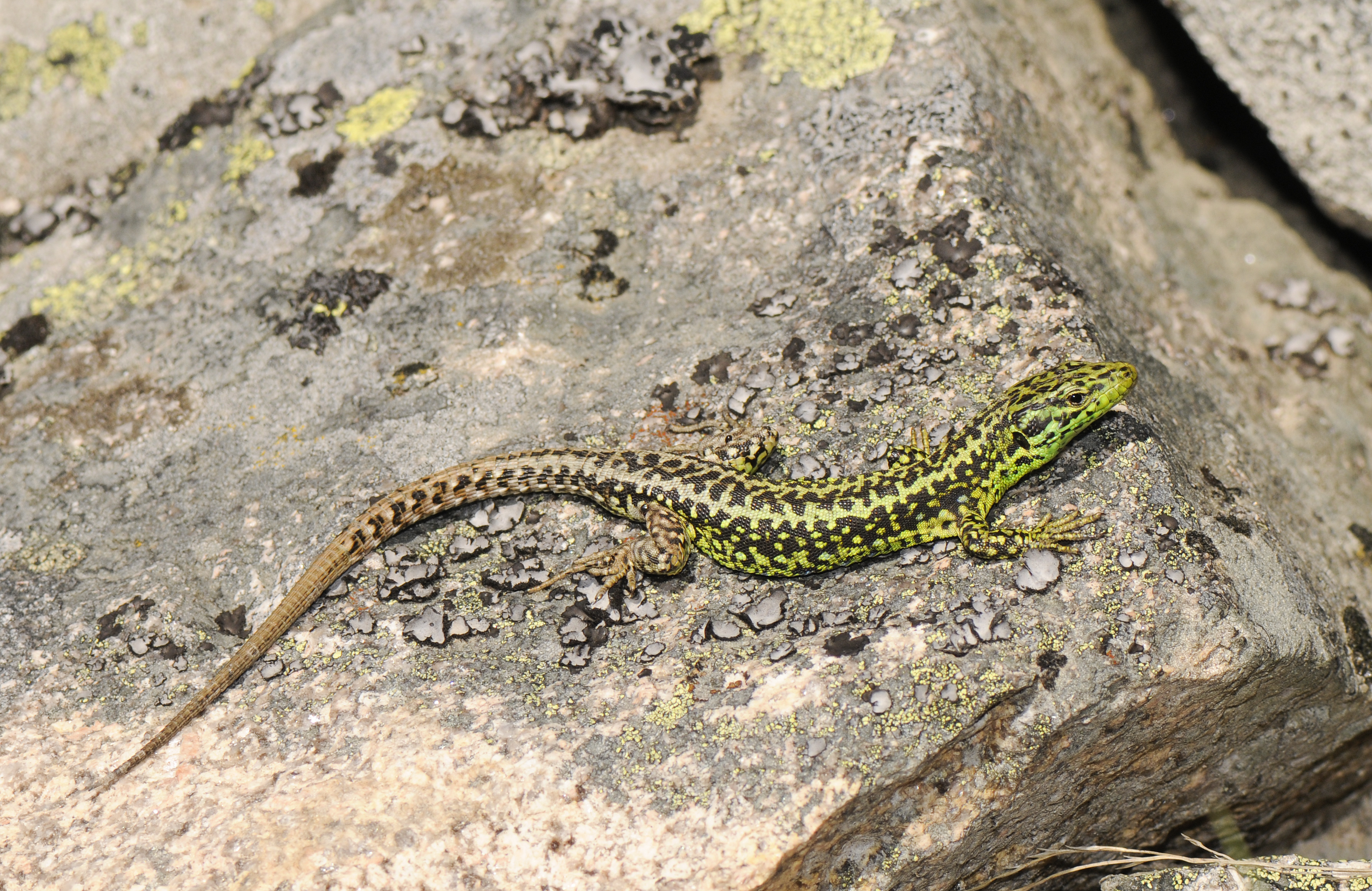 Iberolacerta monticola